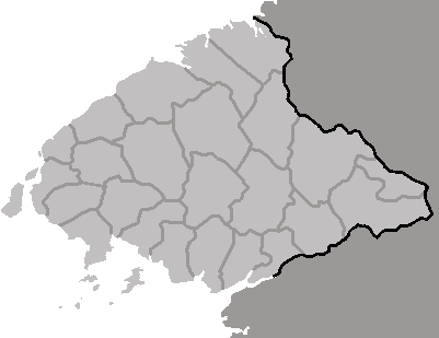 Map of Chongjin, Pyongan-pukto, DPRK, 2006